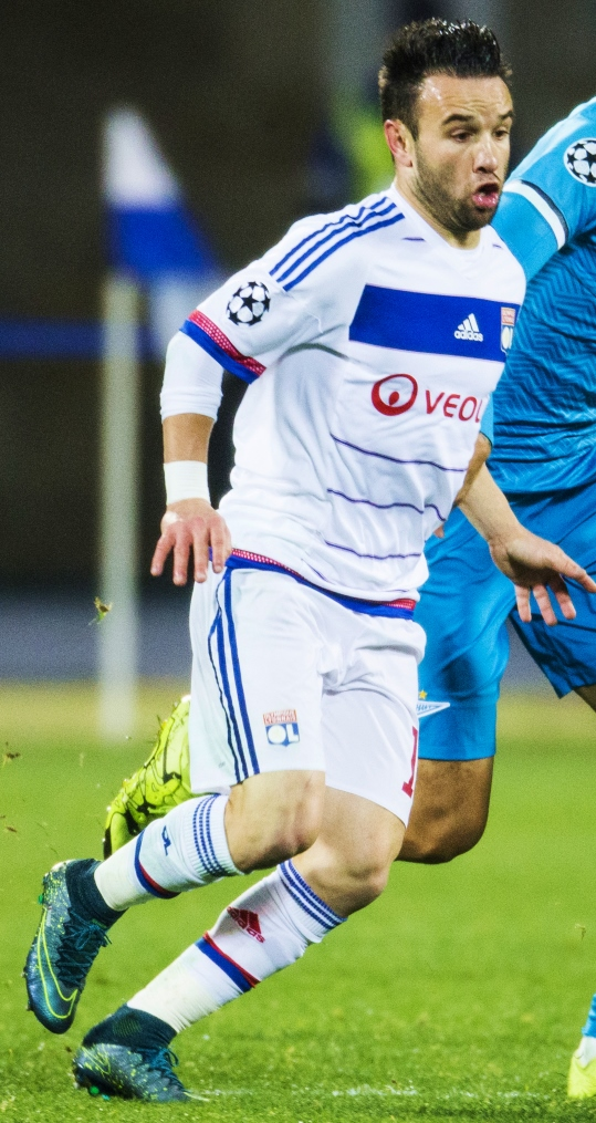 Mathieu Valbuena